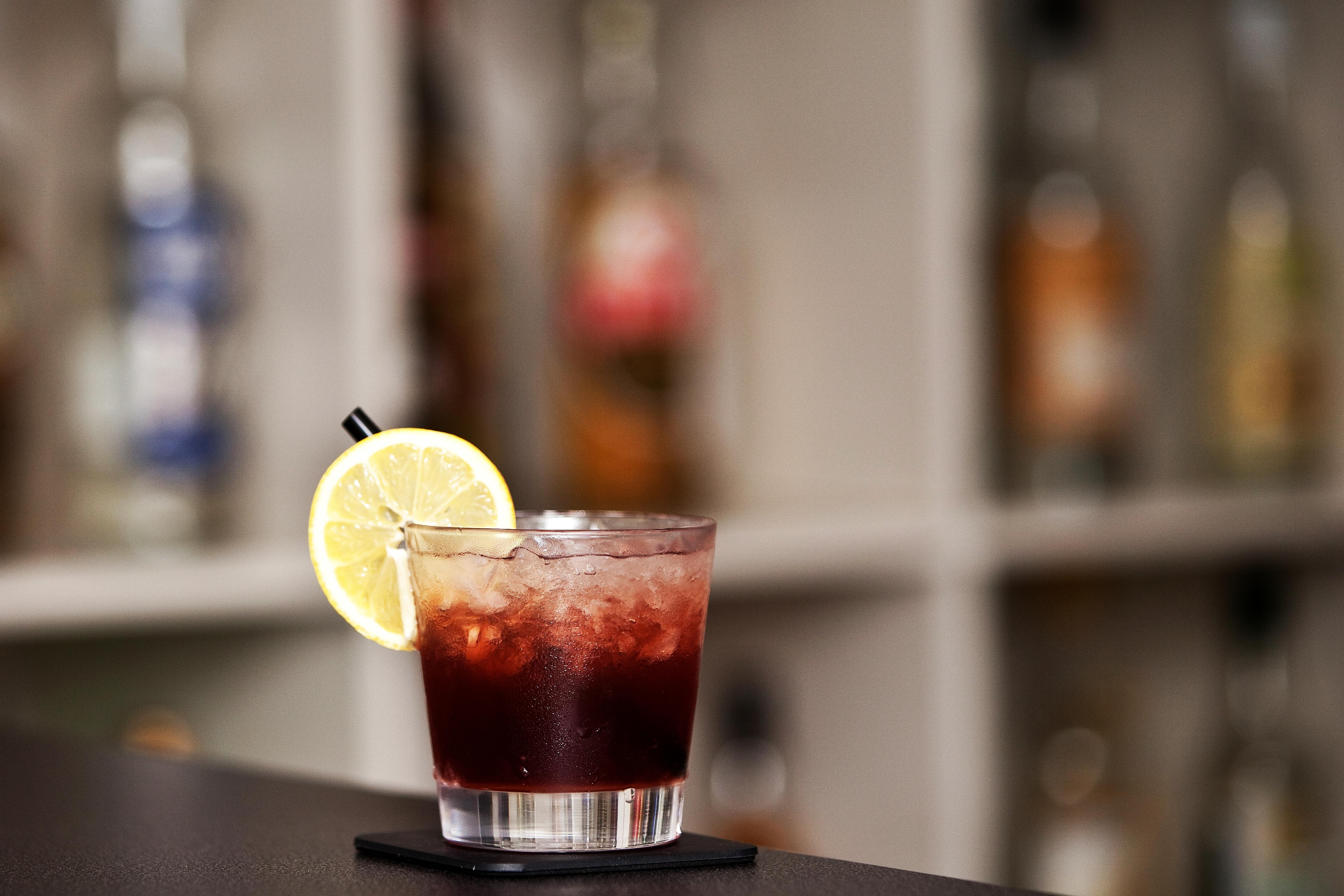 A Bramble Cocktail made with gin, lemon juice, sugar syrpp and Crème de Mûre (blackberry liqueur).